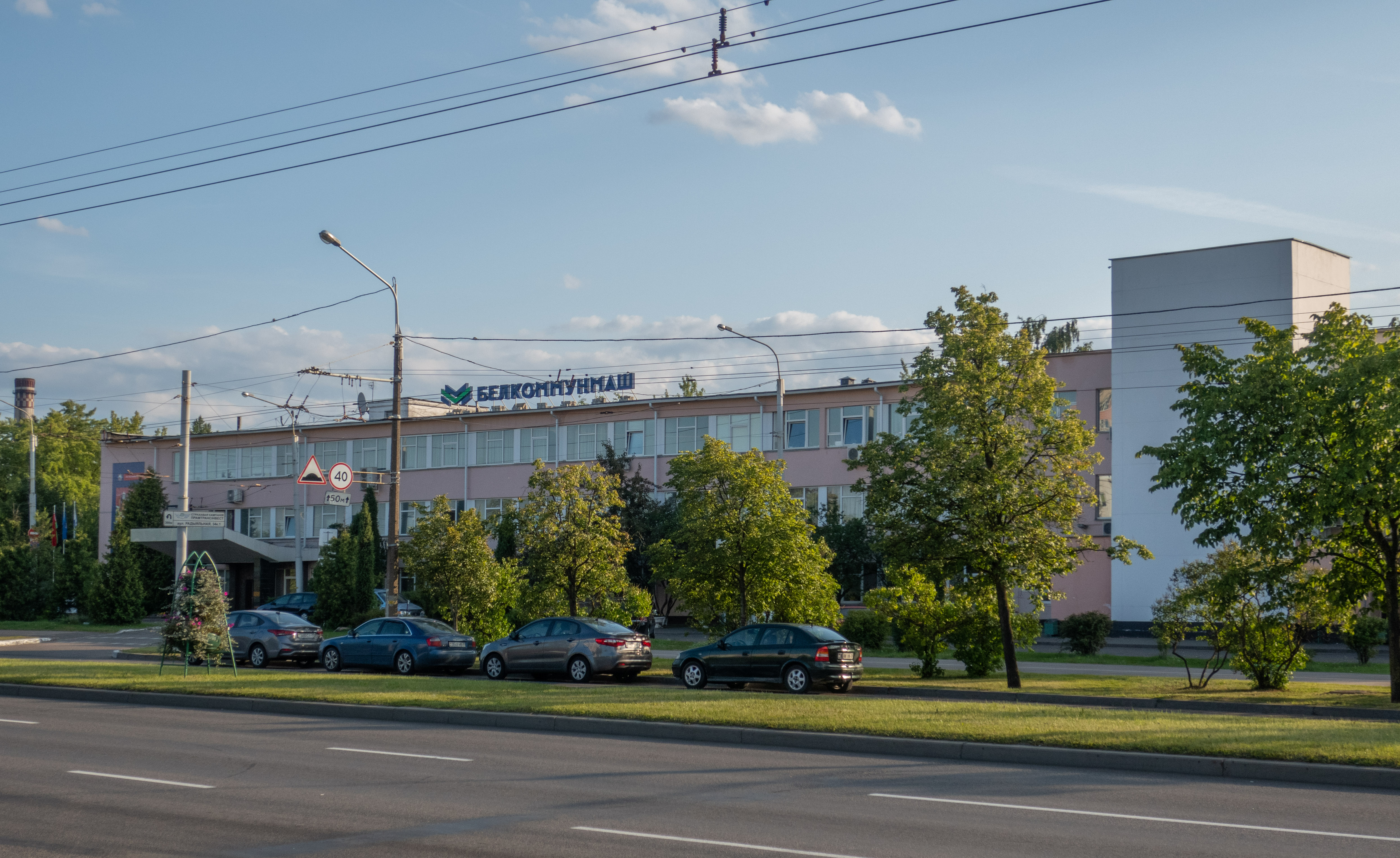 "Belkommunmash" plant. Minsk, Belarus